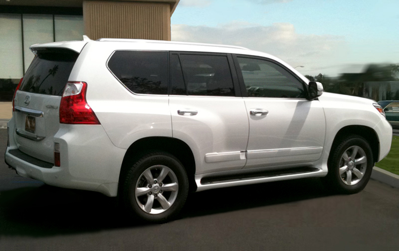 GX 460